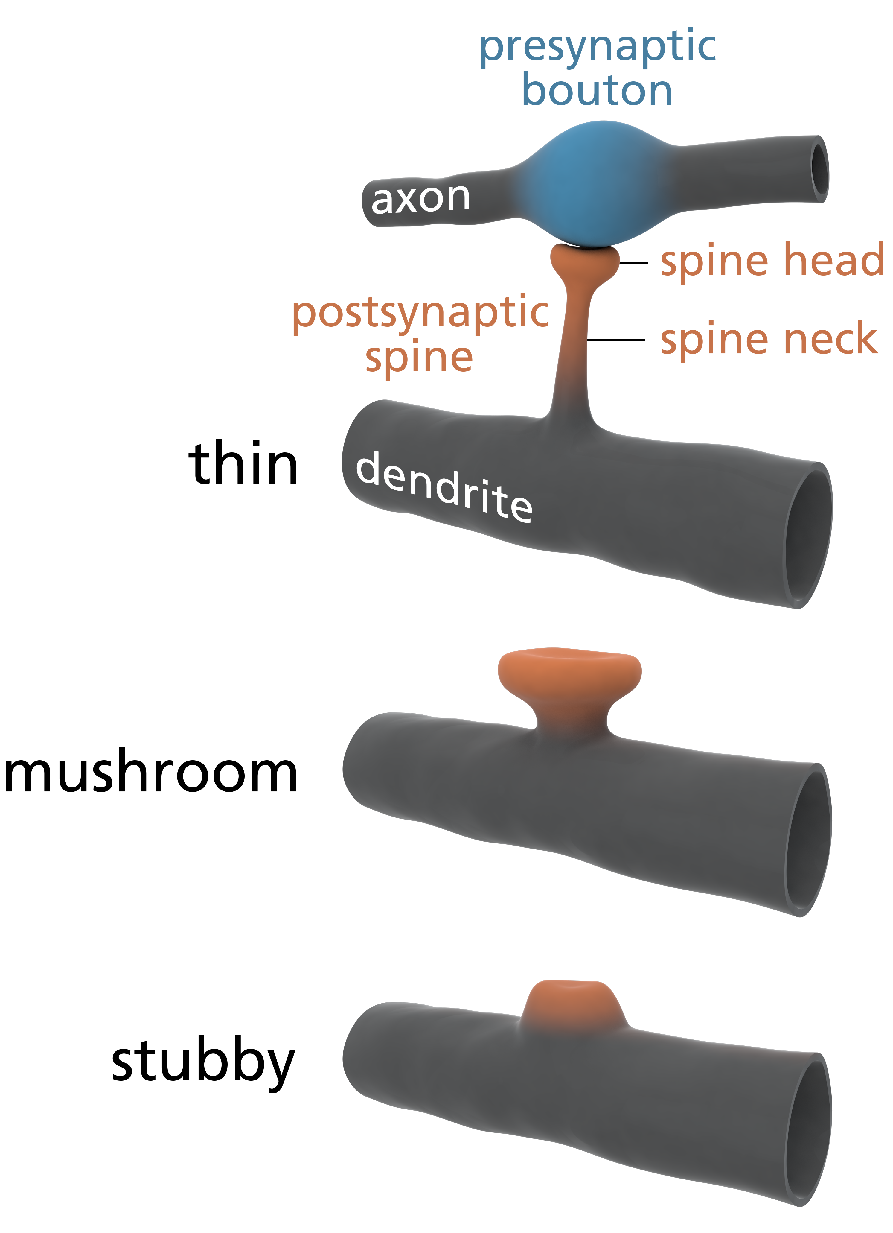 Threedimensional models depicting common shapes of dendritic spines.